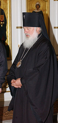 Novgorod oblast, Russia. Vladimir Putin and Archibishop Lev (Tserpitsky) visit Hutynsky Monastery